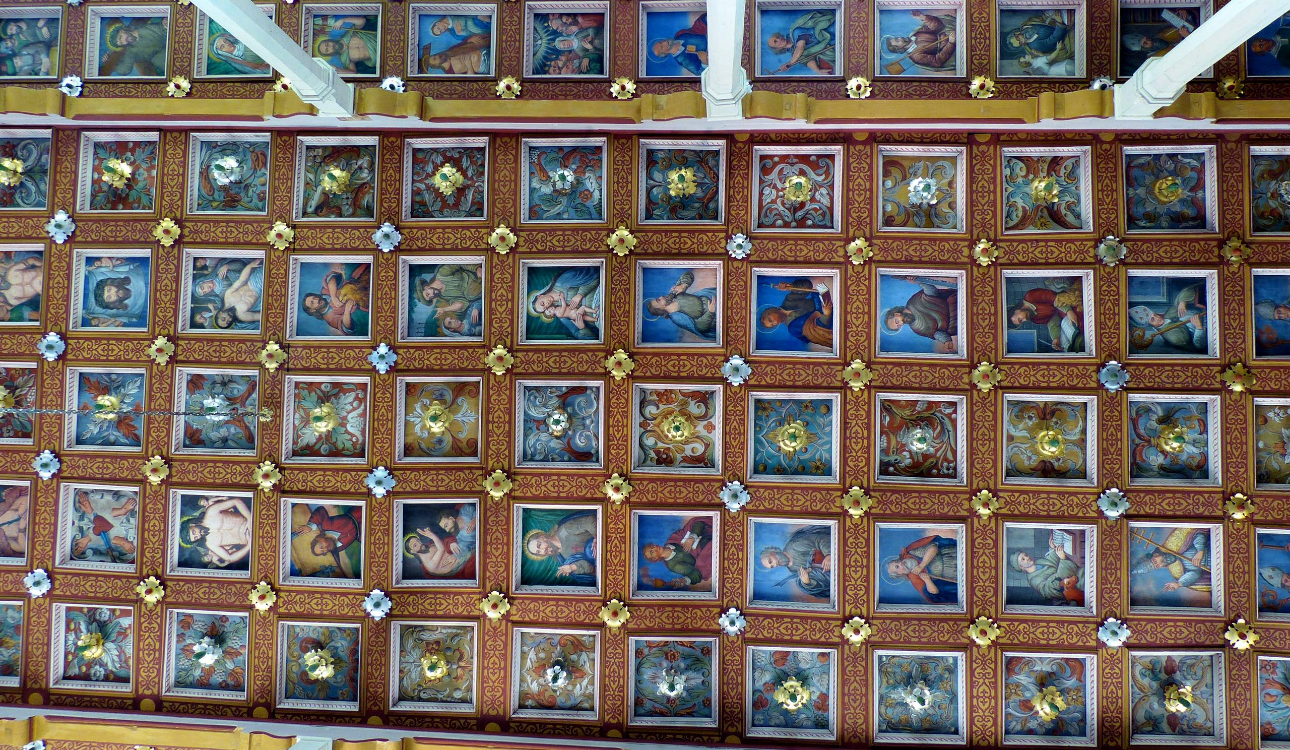 Coffered ceilings in Saints John the Baptist and Michael Archangel church in Lubawa, Poland.